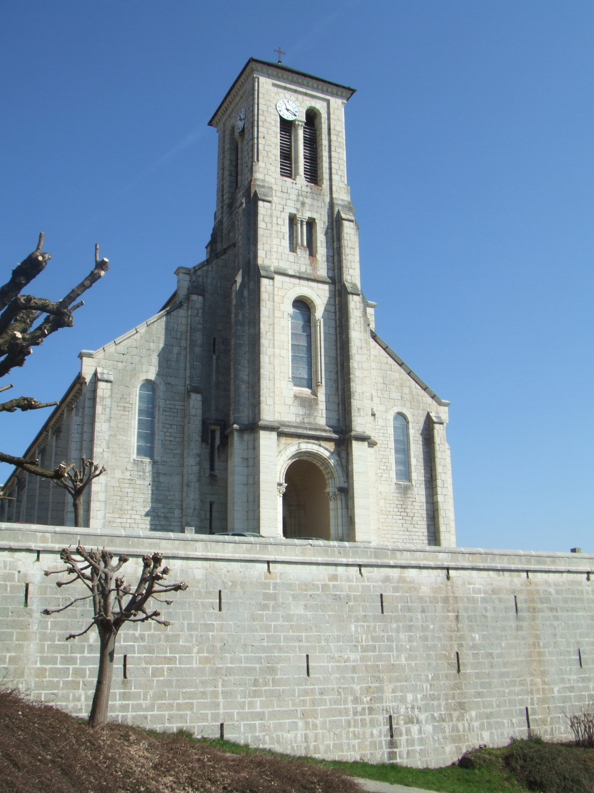 Church of Miribel-Les-Echelles